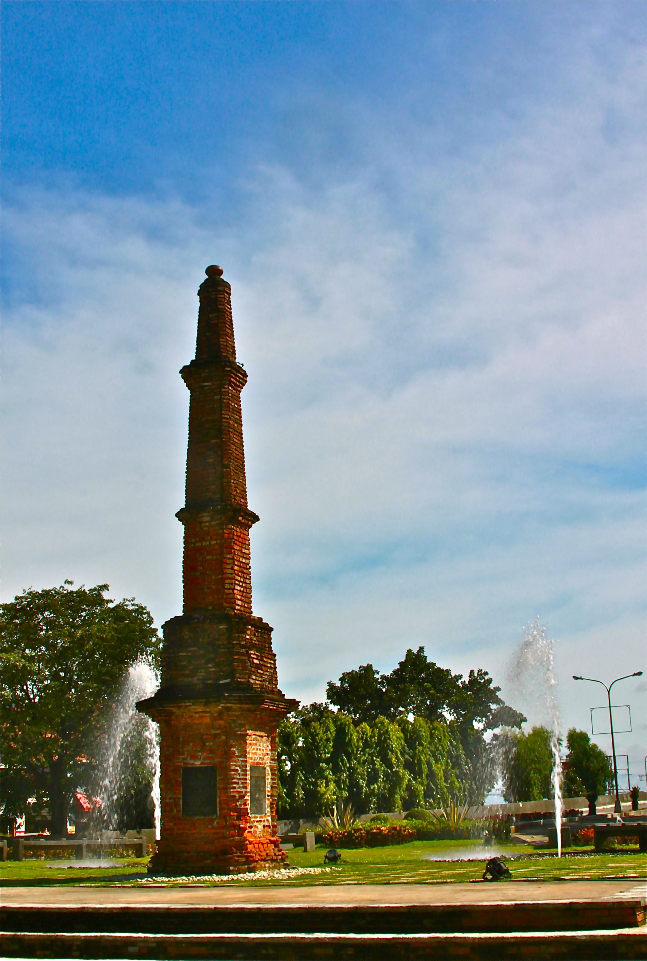 When the Spaniards discovered that the land and climate of Ilocos is perfect for growing tobacco, they forced the people to plant only tobacco and no other crop. The sakadas were also forced to sell the tobacco leaves only to the Spanish government. This led to widespread resistance among the locals. There were also stories of untold abuses done by the authorities. For one hundred long years, 1781 until 1881, the tobacco monopoly existed in Ilocos. A period of dark history in Ilocandia. It was only in 1881 when King Alfonso XII lifted the tobacco monopoly. The people of Ilocos then erected the Tobacco Monopoly Momunent as a thanksgiving to the Crown of Spain for recognizing the stuggles of the Ilocano people against the Monopoly. The tall yet graceful monument is located right at the center of Laoag City plaza, in front of the Provincial Capitol. Source: Wikimapia